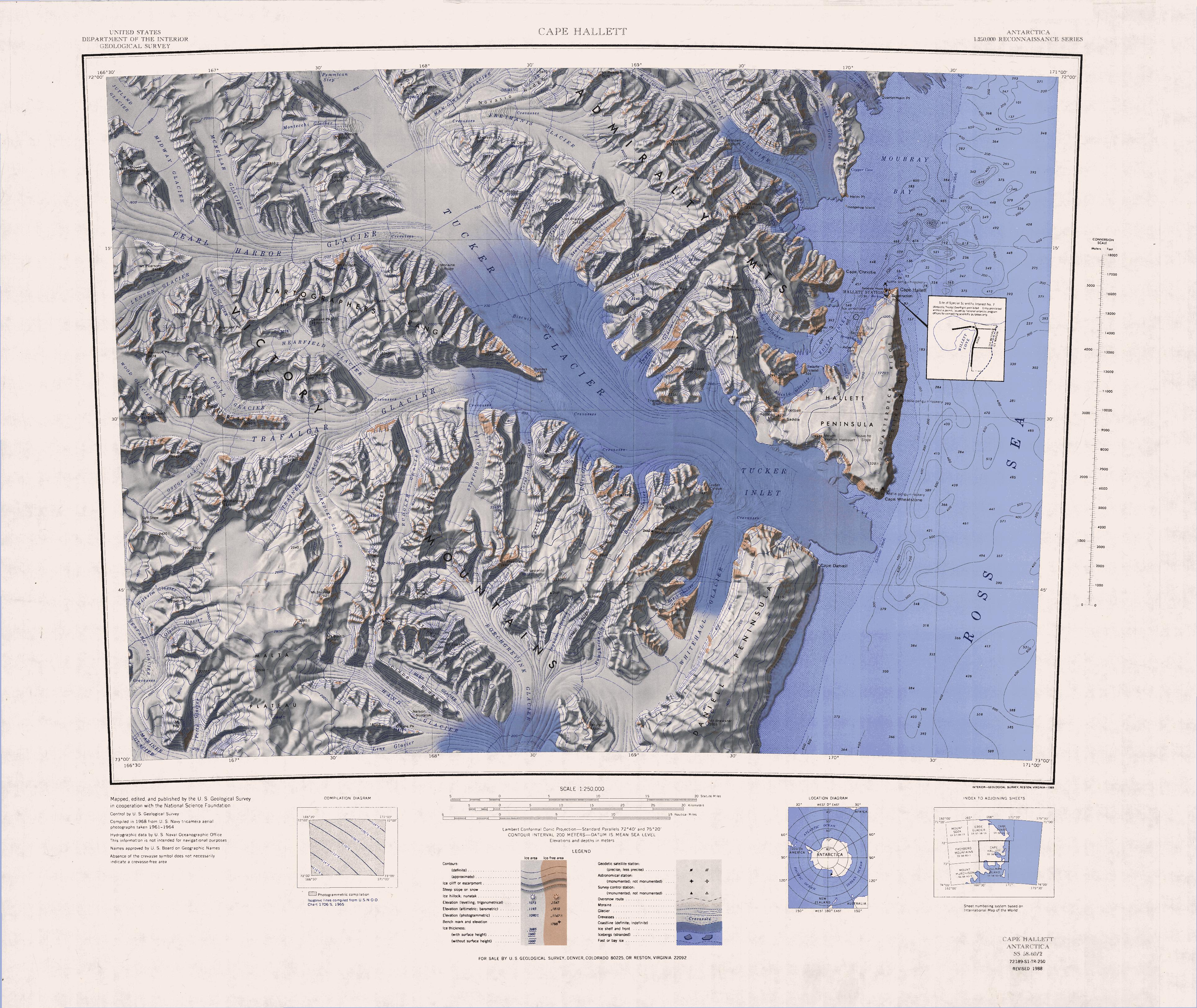 1:250,000-scale topographic reconnaissance map of the Cape Hallet area from 159°-162°E to 71°-72°S in Antarctica, including the Tucker Glacier. Mapped, edited and published by the U.S. Geological Survey in cooperation with the National Science Foundation.